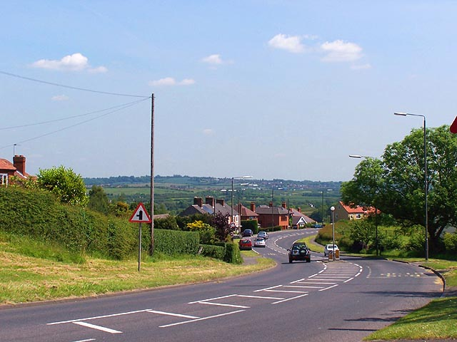 Shipley, Derbyshire. Hardy Barn is the name of the hill at Marlpool (on the outskirts of Heanor) seen here looking in the direction of Shipley on the road towards Ilkeston. OSGB36: geotagged! SK 446 453 [100m precision] WGS84: 53:0.2115N 1:20.1921W